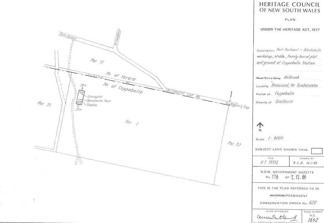 Coppabella Blacksmith Shop: PCO Plan Number 620